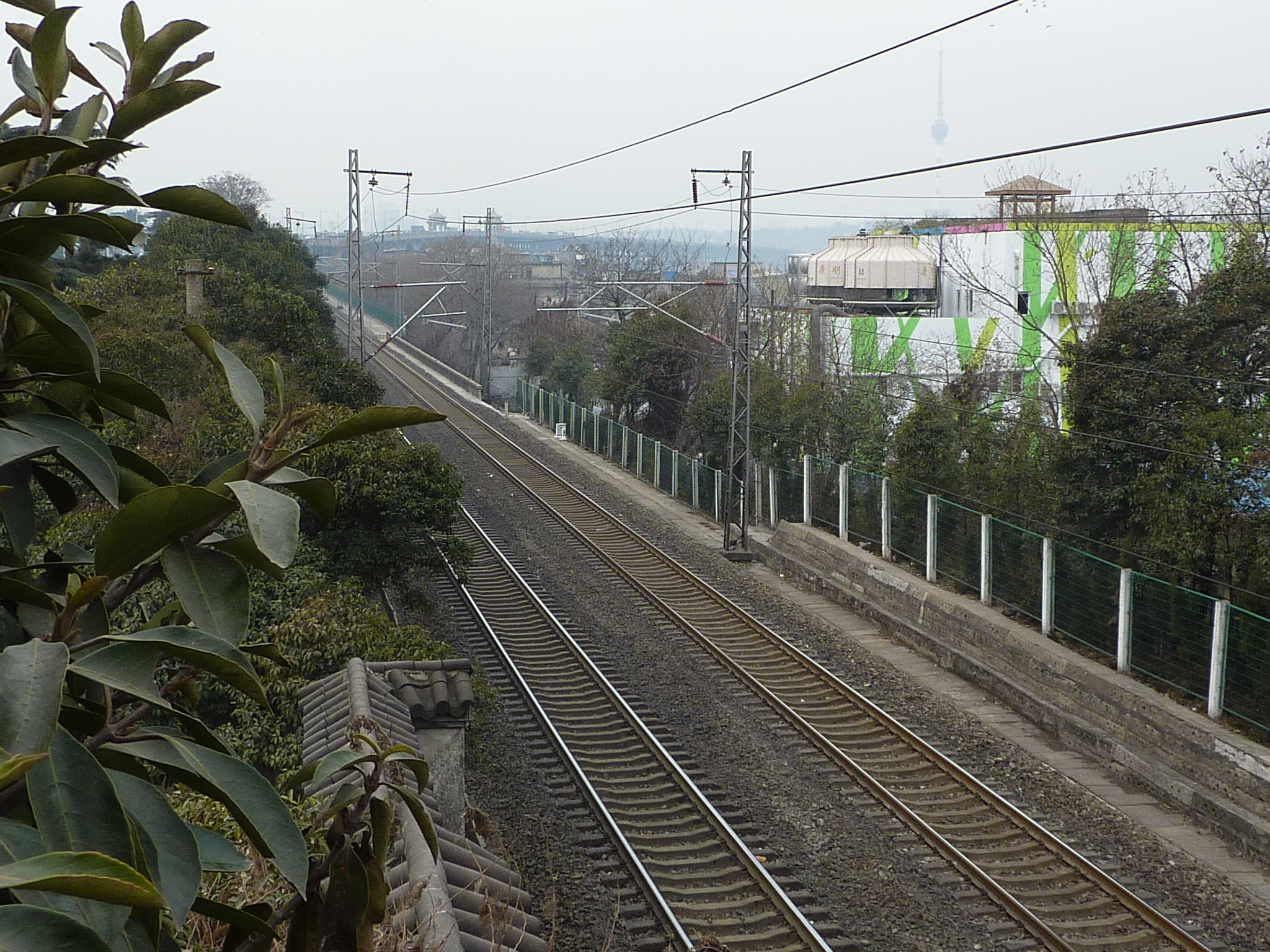 Looking west from the entry plaza of the Yellow Crane Tower (on Wuhan's Snake Hill), toward the Tortoise Hill TV Tower (on the opposite side of the river). The railway that runs near the two towers is the Jingguang (Beijing-Guiangzhou) railway. It enters the First Yangtze Bridge in the far background; one of the bridge's guard towers can be seen there.